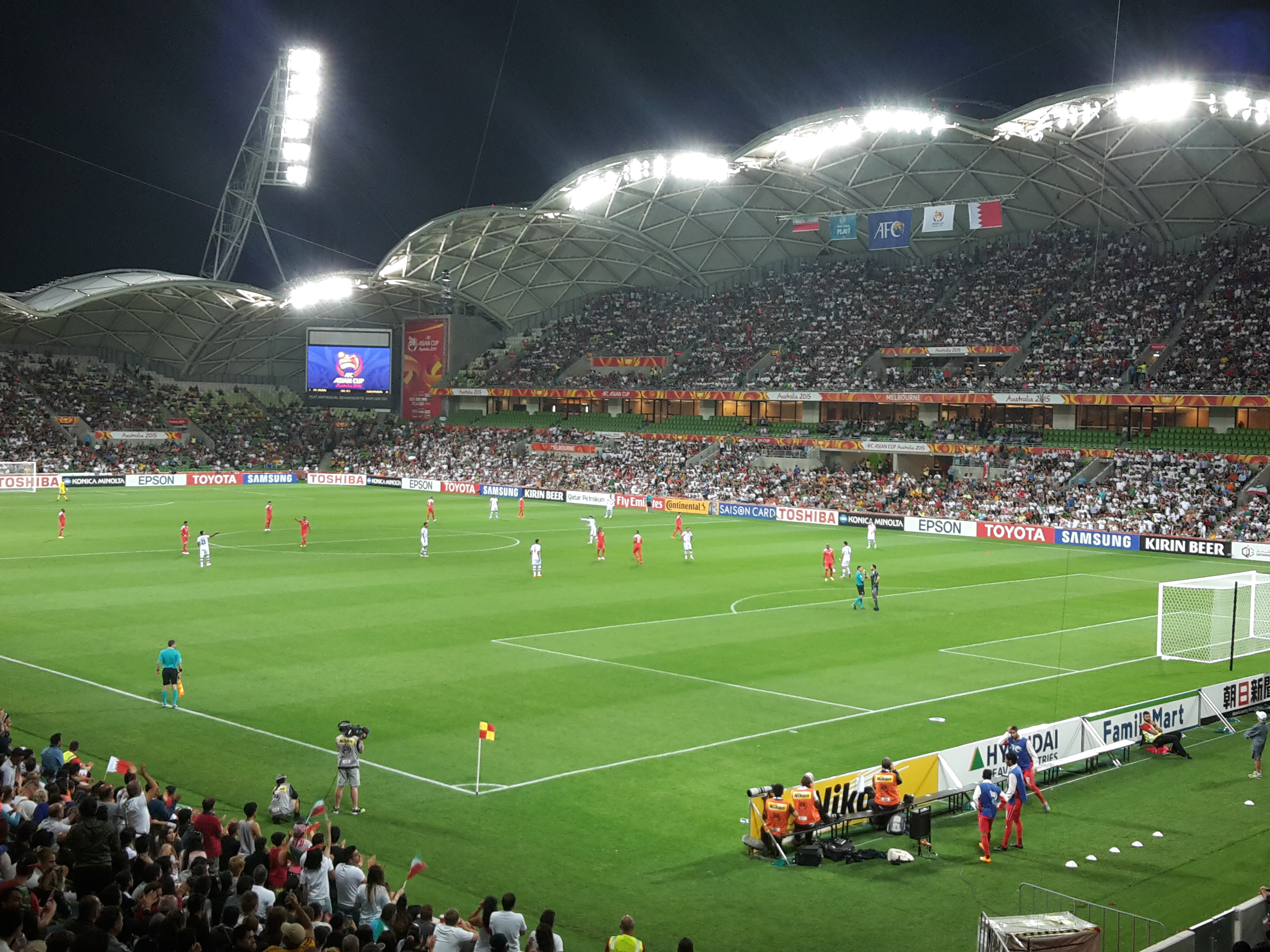 AAMI Park during the Group C match between Iran and Bahrain in the 2015 AFC Asian Cip